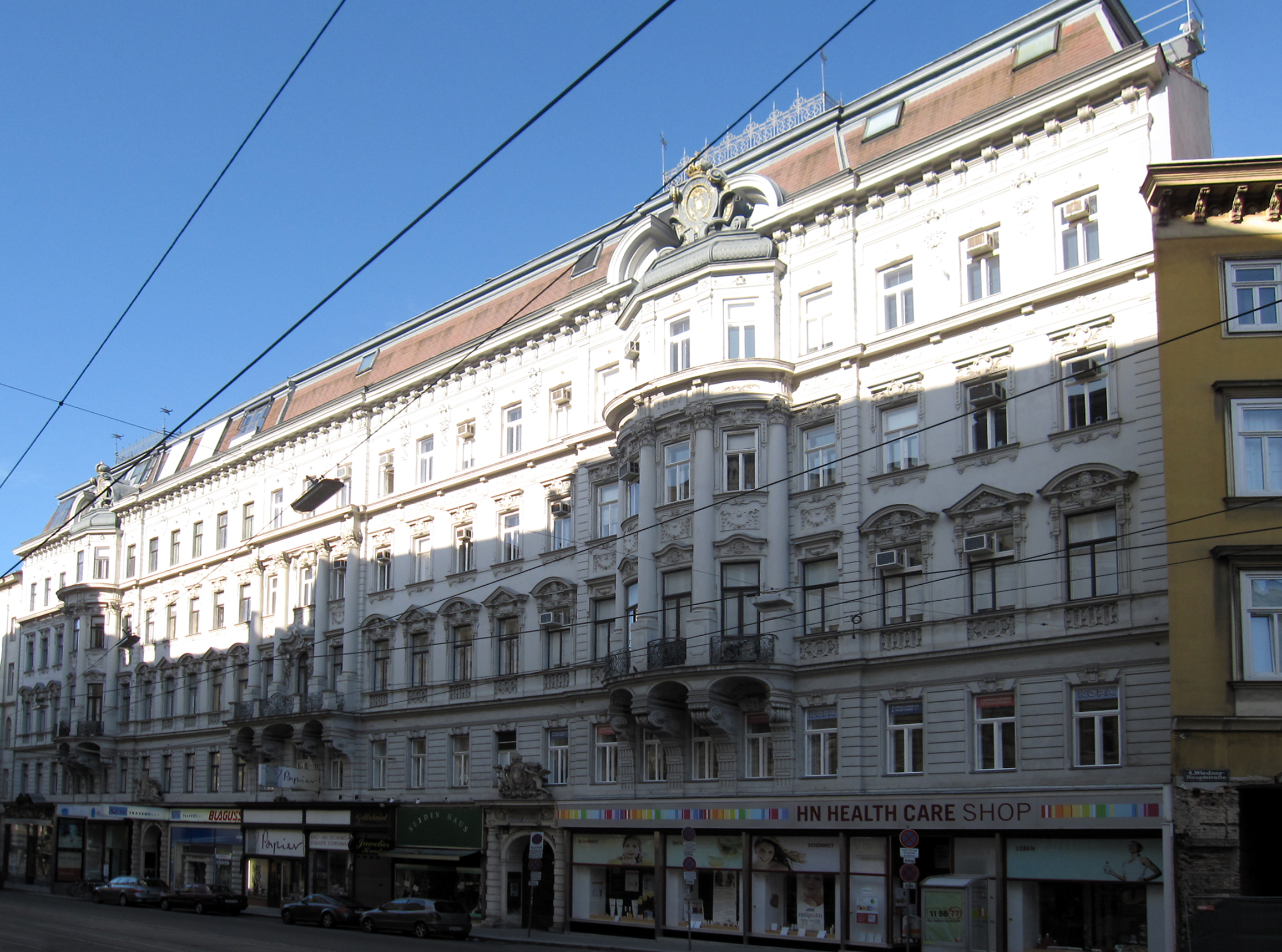 Habig-Hof in Vienna